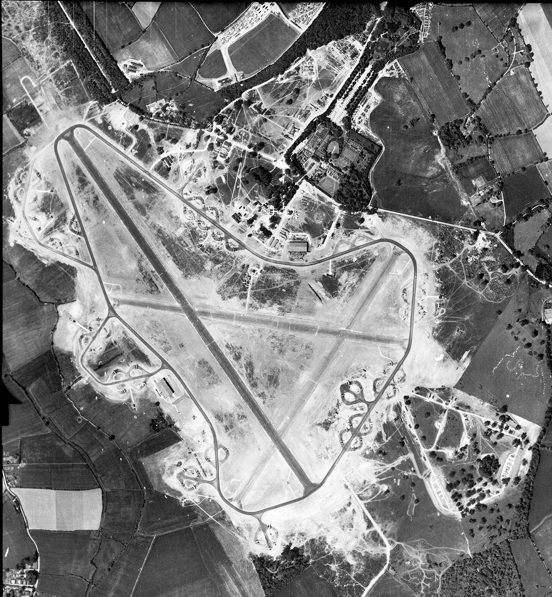 Aerial photograph of Great Dunmow airfield 30 May 1944. Photograph taken by 7th Photographic Reconnaissance Group, sortie number US/7PH/GP/LOC2. English Heritage (USAAF Photography).